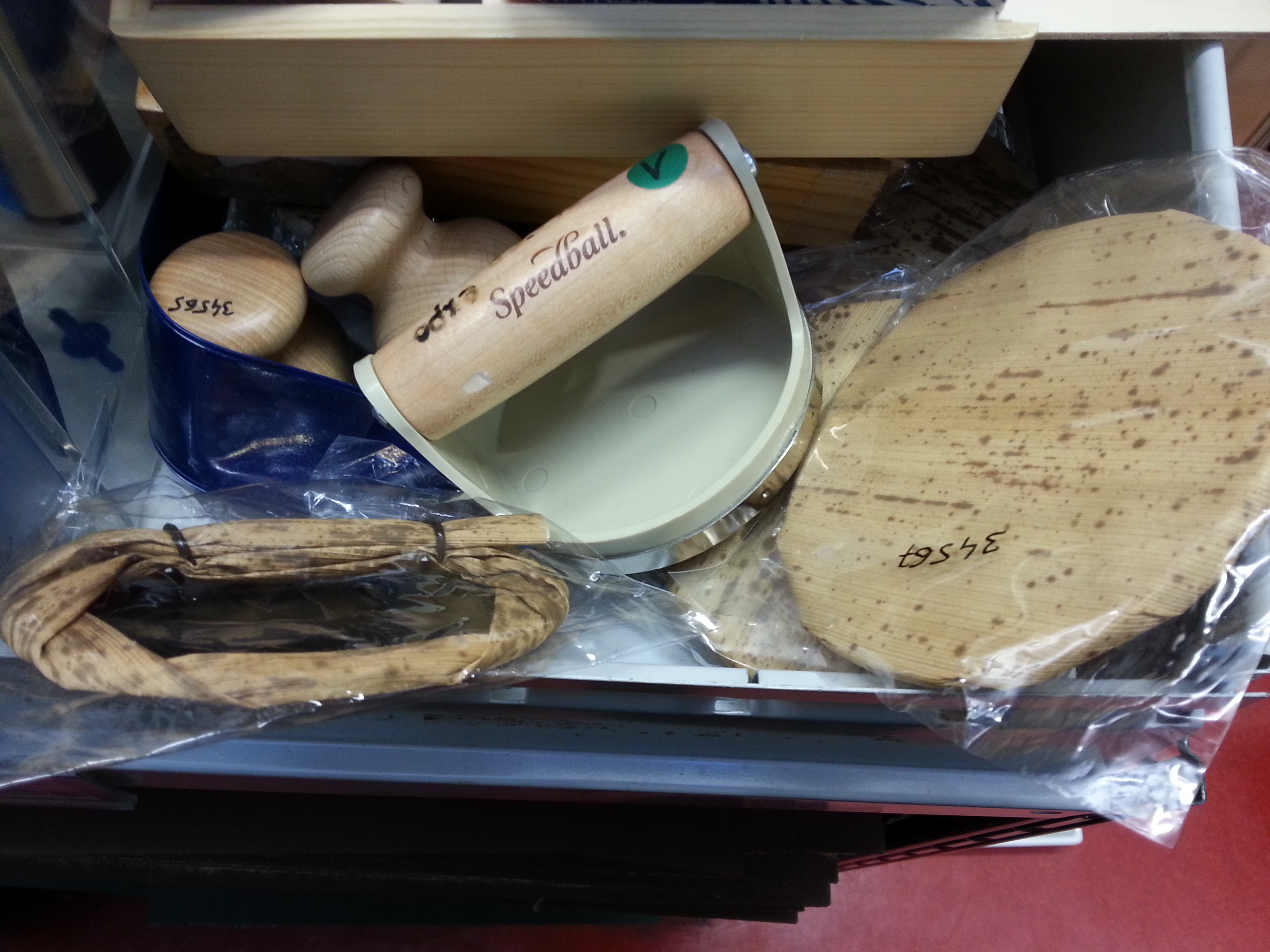 Two traditionnal baren build with dried leaves and a modern baren, made of plastic and wood.